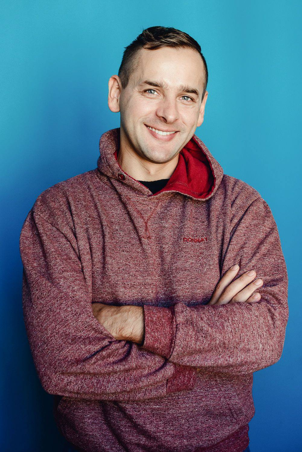 Jaan Ulst